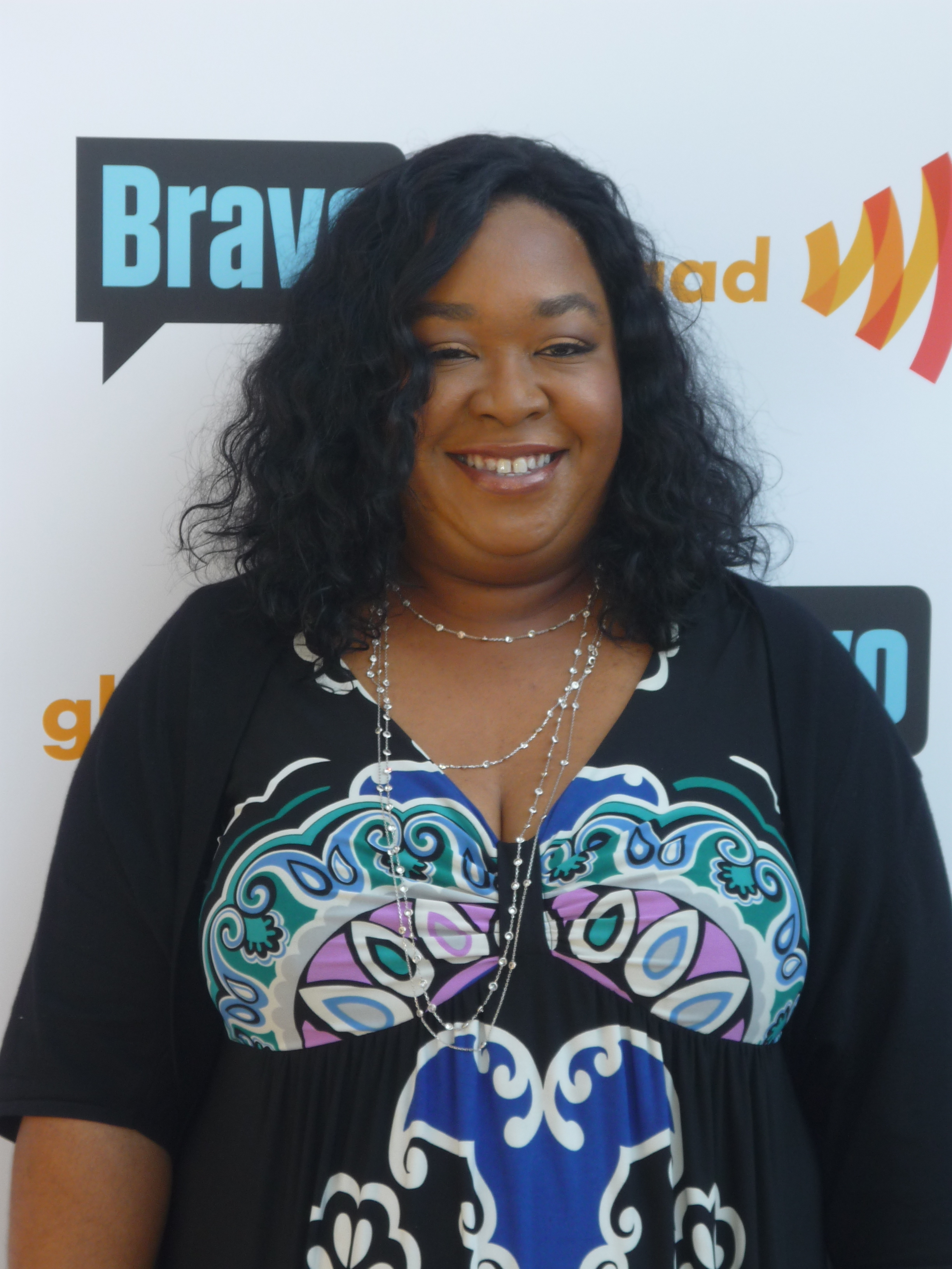 Shonda Rhimes in 2008